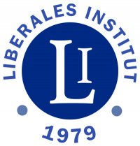 Logo of Liberales Institut